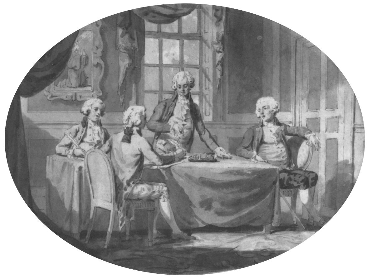 Plenipotentiaries of Britain, Holland, Prussia and Russia signing the Treaty of 1791, by Edward Dayes (died 1804). Includes Charles Whitworth, 1st Earl Whitworth All images in this batch have been confirmed as author died before 1939 according to the official death date listed by the NPG.